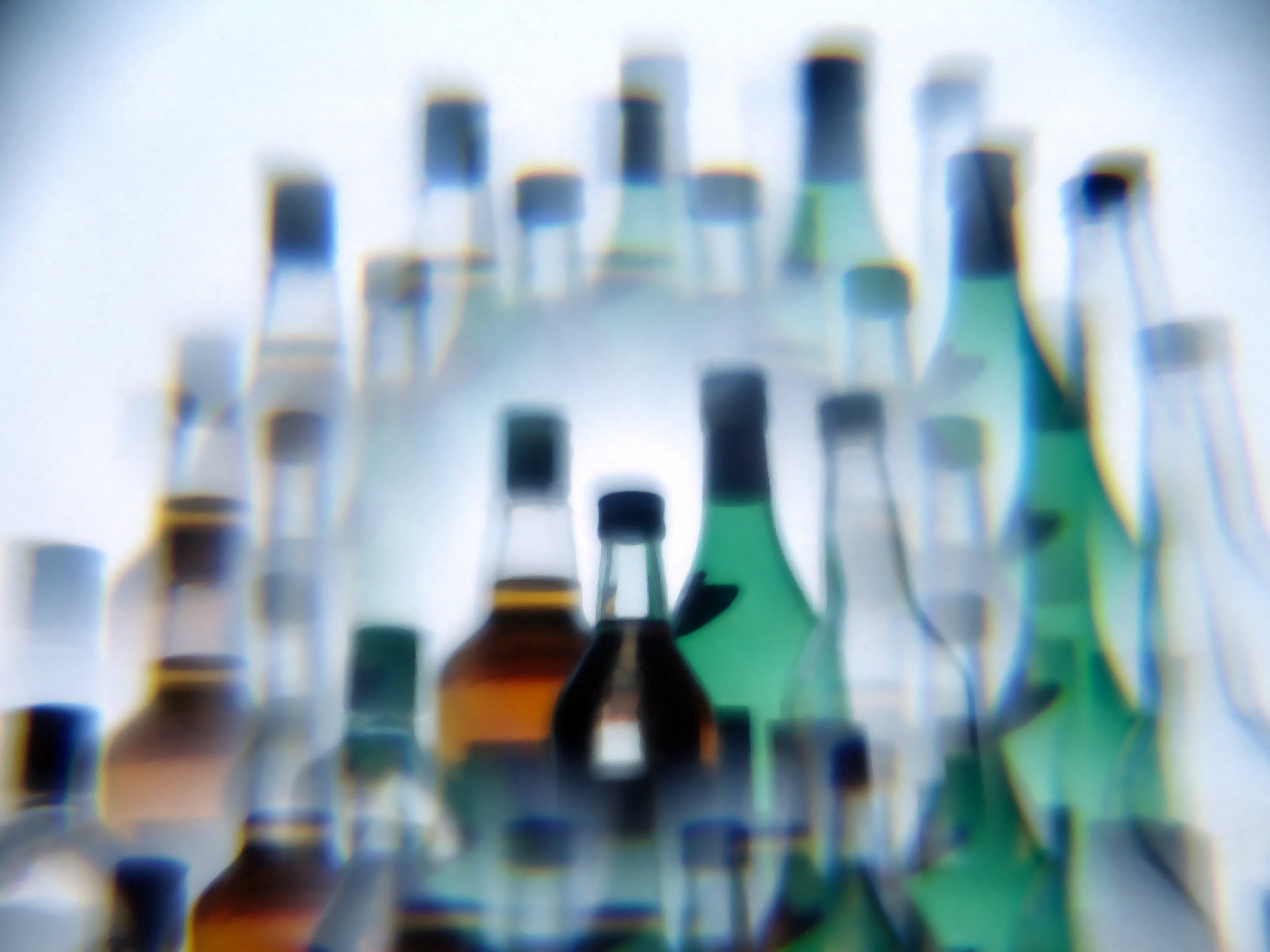 Wine and hard liquor bottles photographed through a multiprism filter.